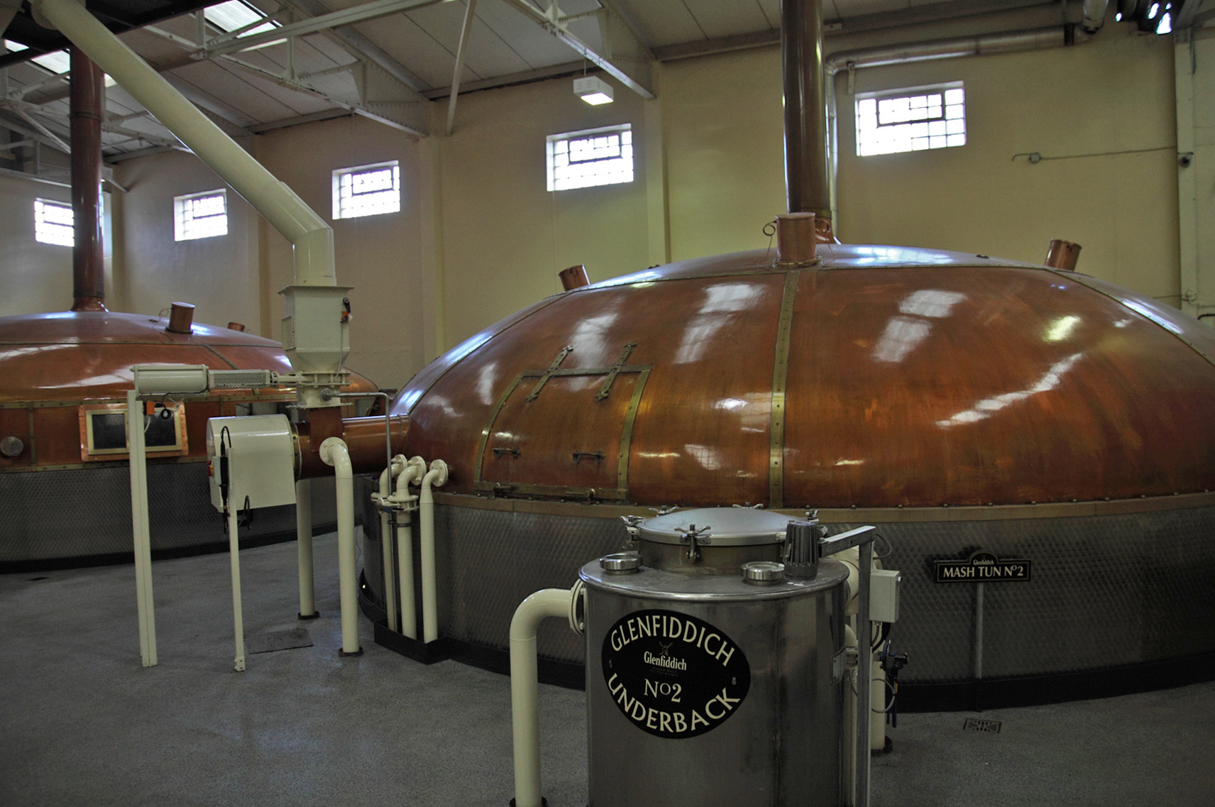 Mash-tun in the Glenfiddich distillery - here the mash ist mixed with water to extrude the maltose